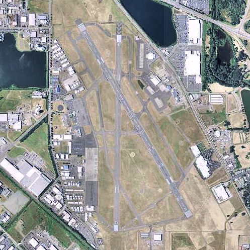 USGS digital orthophoto of McNary Field, an airport in Oregon